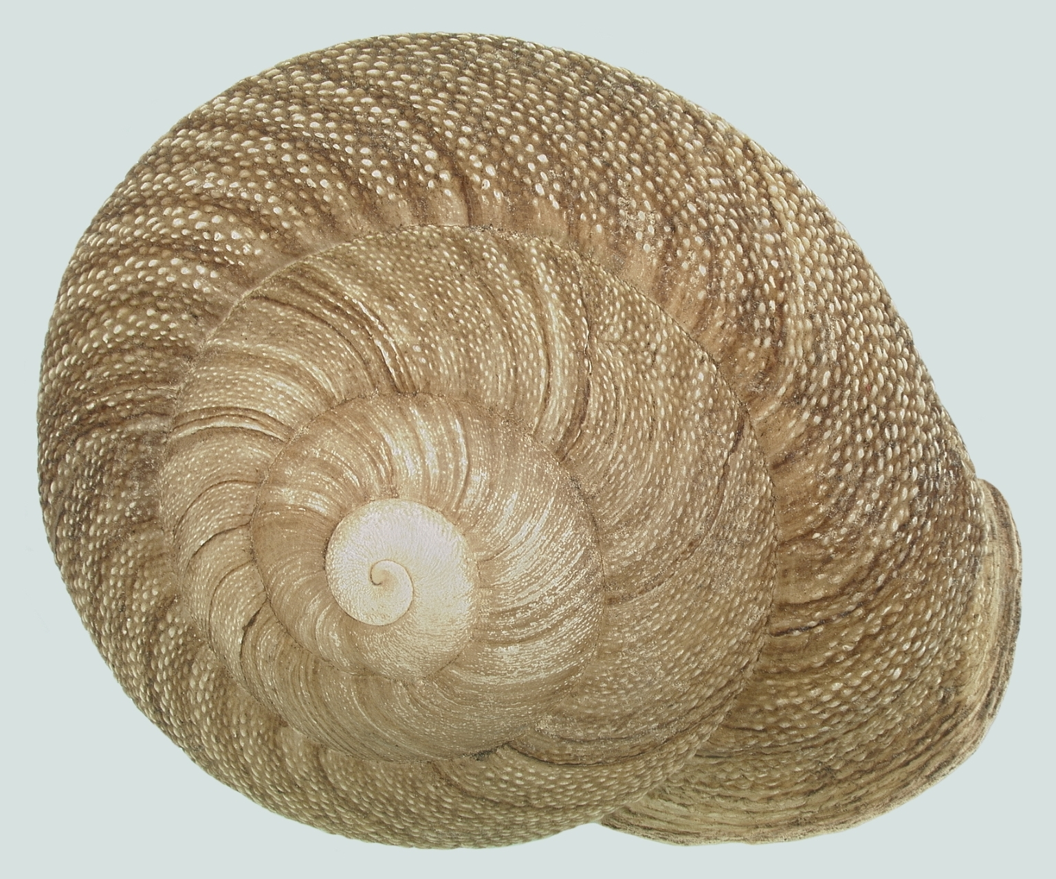 apical view of the shell of Polydontes lima